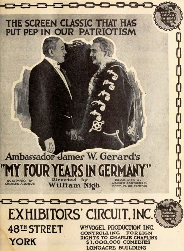 Advertisement for the American drama film My Four Years in Germany (1918), based upon the book by James W. Gerard, on page 9 of the July 20, 1918 Exhibitors Herald.